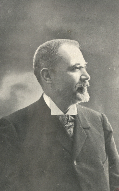 Photograph of Portuguese Republican politician Luís Filipe da Mata, included in the Album Republicano, published in 1908.